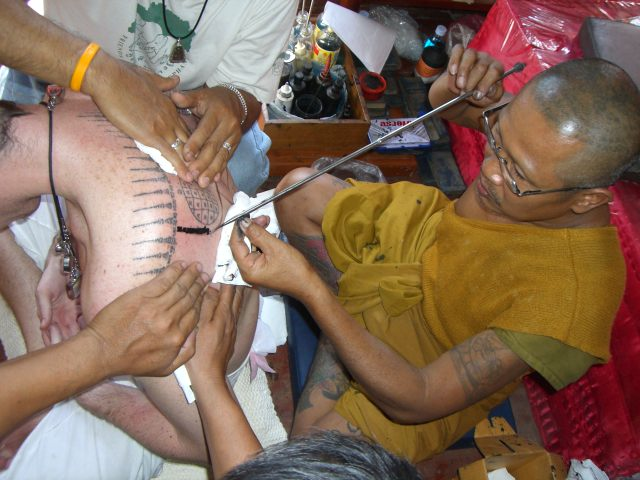 Hlwong Pi Pant tattooing a Yant in Ang Tong Province. Fotographer - Spencer Littlewood